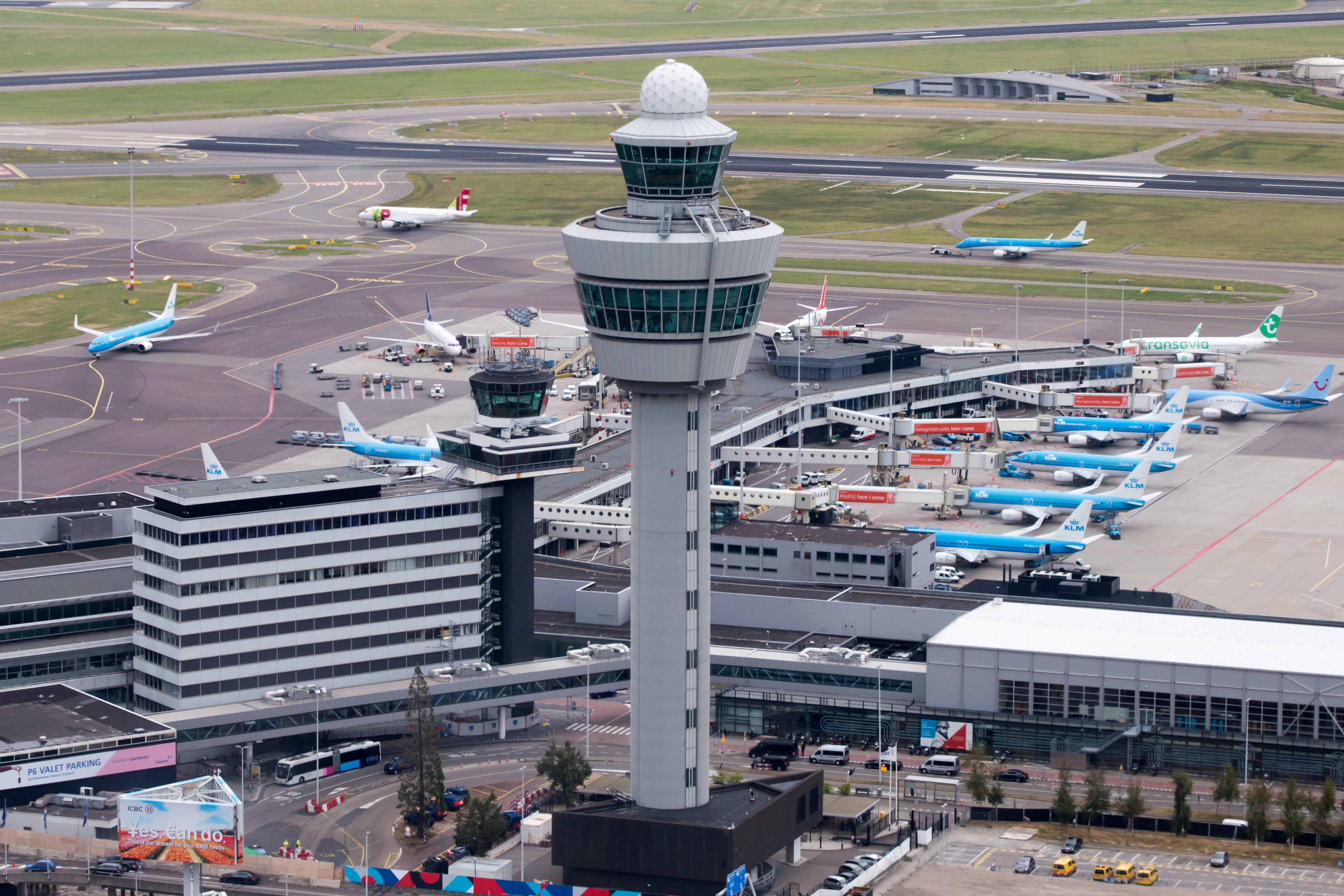 Air Traffic Control runs from Schiphol Tower